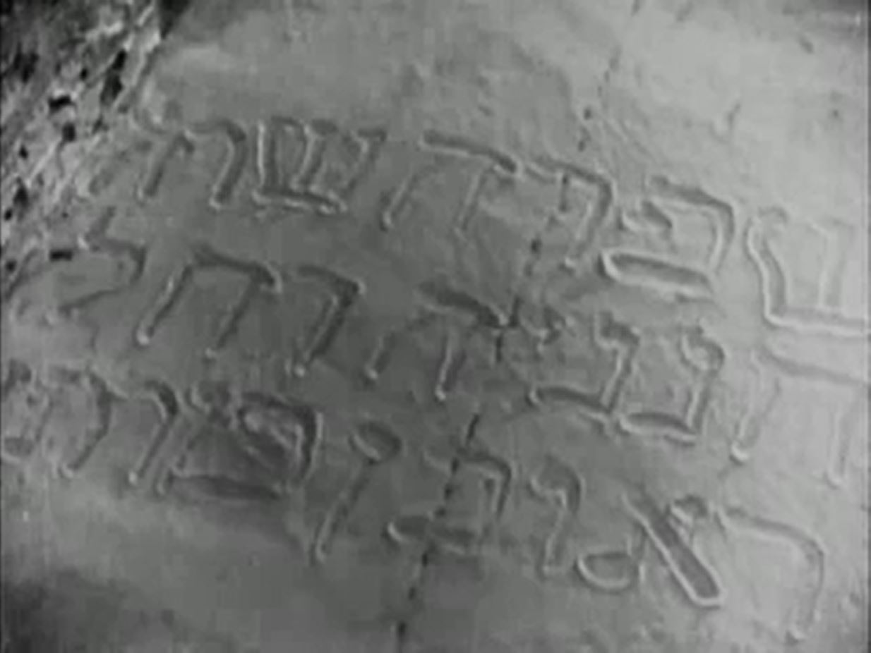 Low resolution screenshot from the public domain version of the film Intolerance (1916). A scene from the Biblical "Judean" story, when the woman taken in adultery is brought before the Nazarene, he writes some words in the sand on a stone step before telling the religious leaders "He that is without sin among you, let him first cast a stone at her." This screenshot shows the words written in the sand.